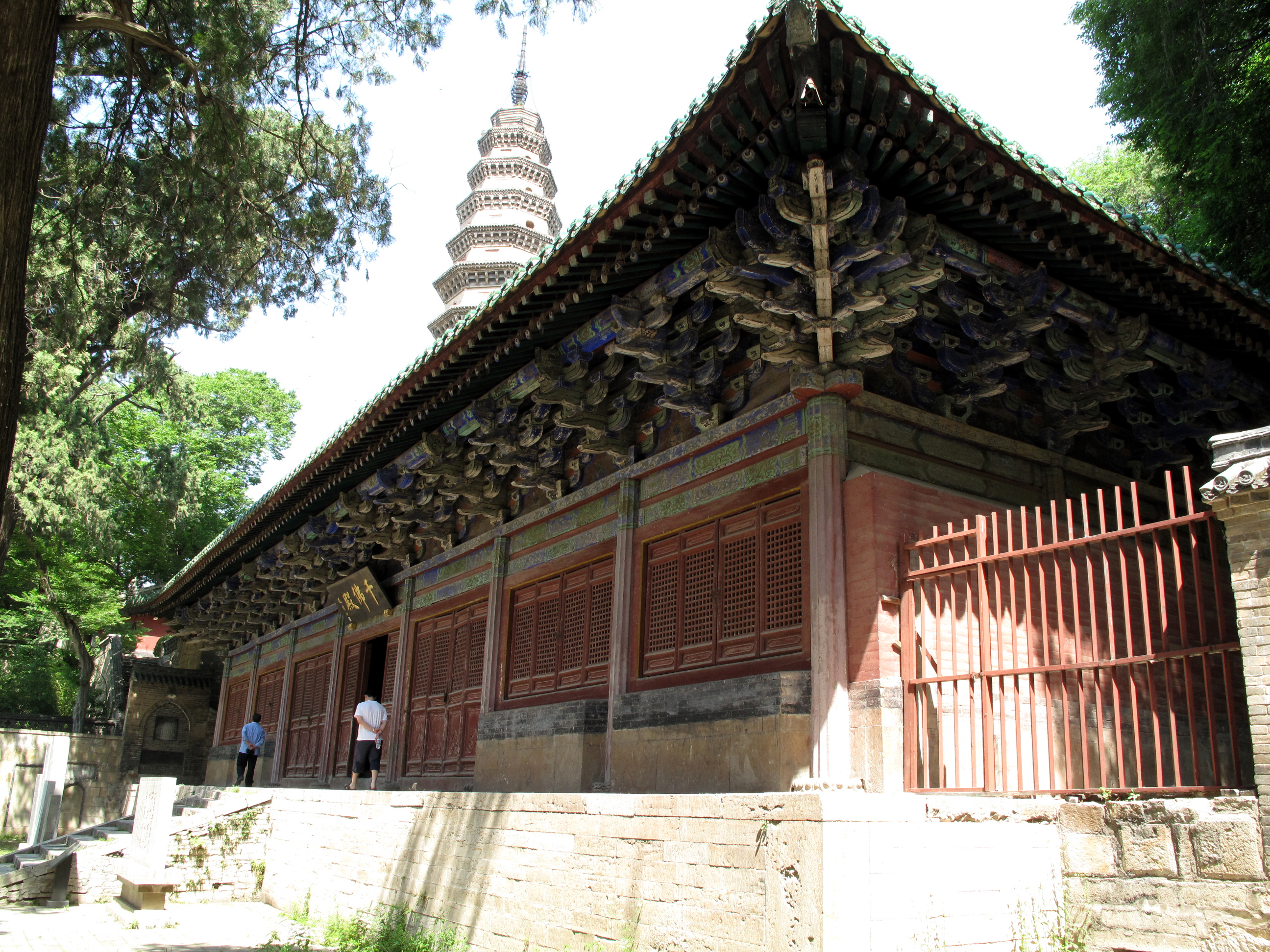 Thousand-Buddha Hall. Lingyan Si, Jinan The foundation of this hall dates originally to the Tang dynasty, but the building itself was reconstructed in the Song, Ming, Qing, and modern eras. It contains the most important statues in the temple: a Vairocana triad, and 40 Arhats. The Pizhi Pagoda is peeking up behind the roof.